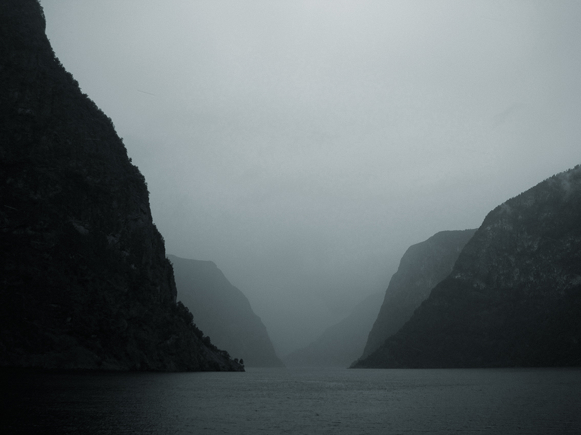 Norway, Jun 2010.